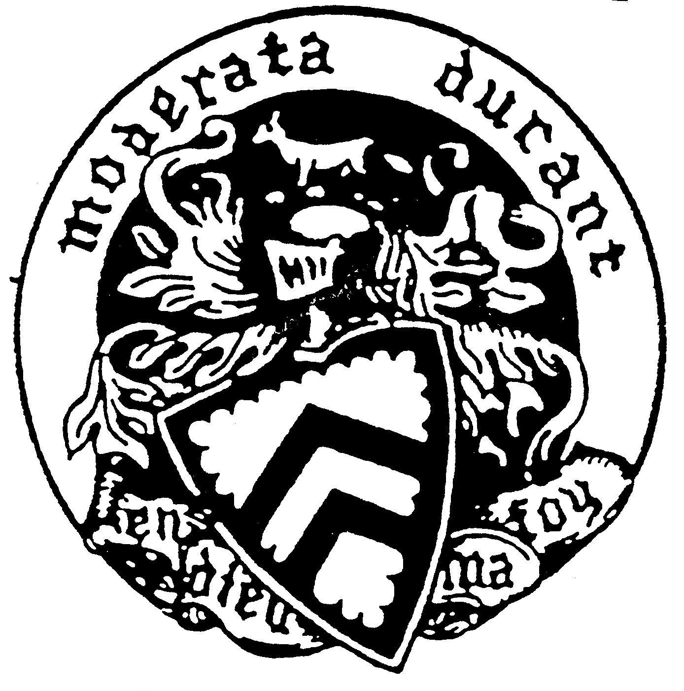 Coat of Arms of Staunton va